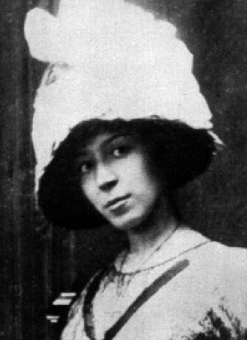 French painter Marie Laurencin (1853-1956) c.1912, Paris